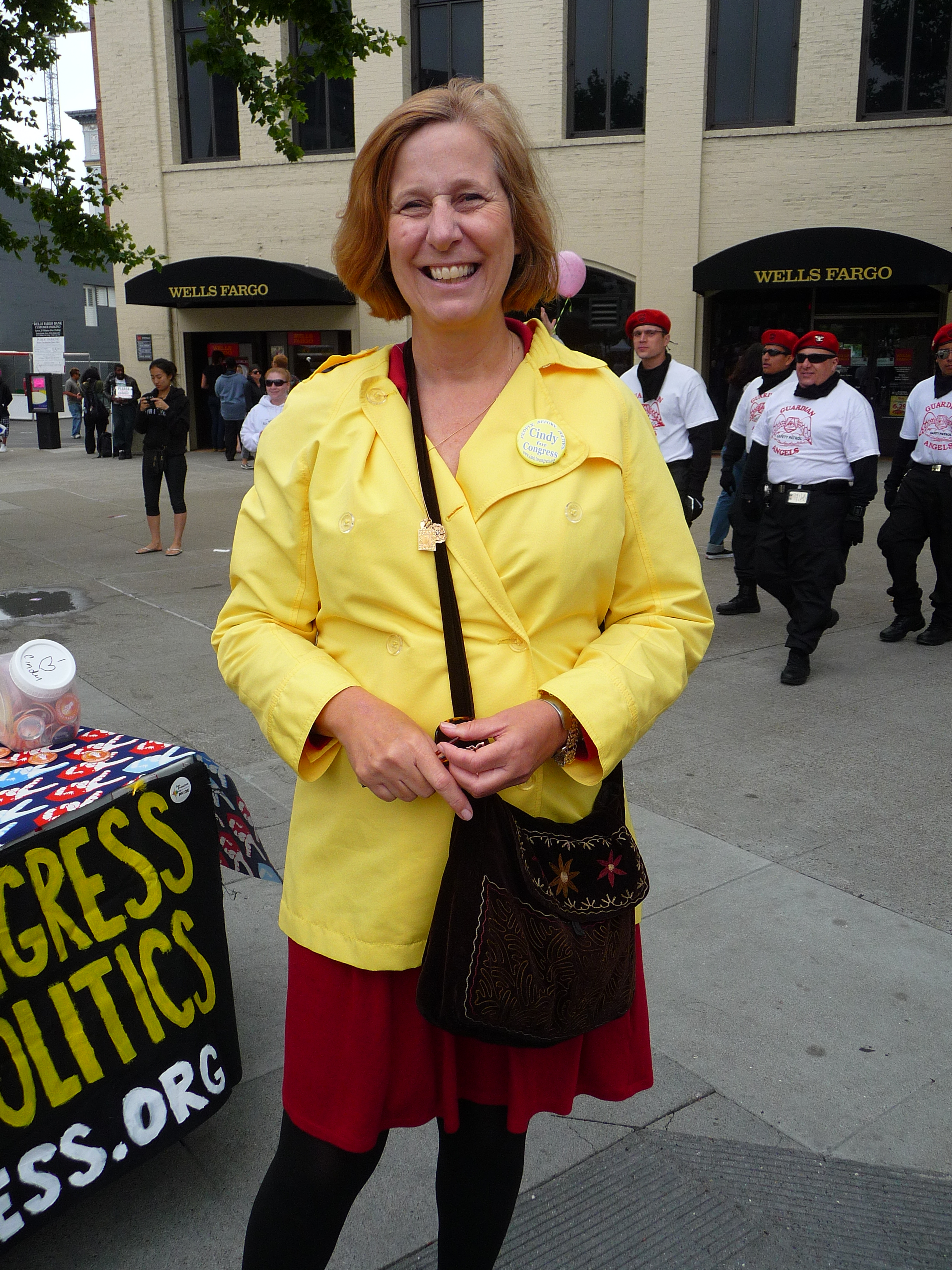 Cindy Sheehan at San Francisco Gay Pride 2008